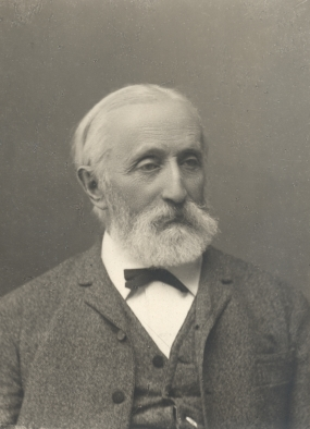 Portrait (photography) of Leo Meyer